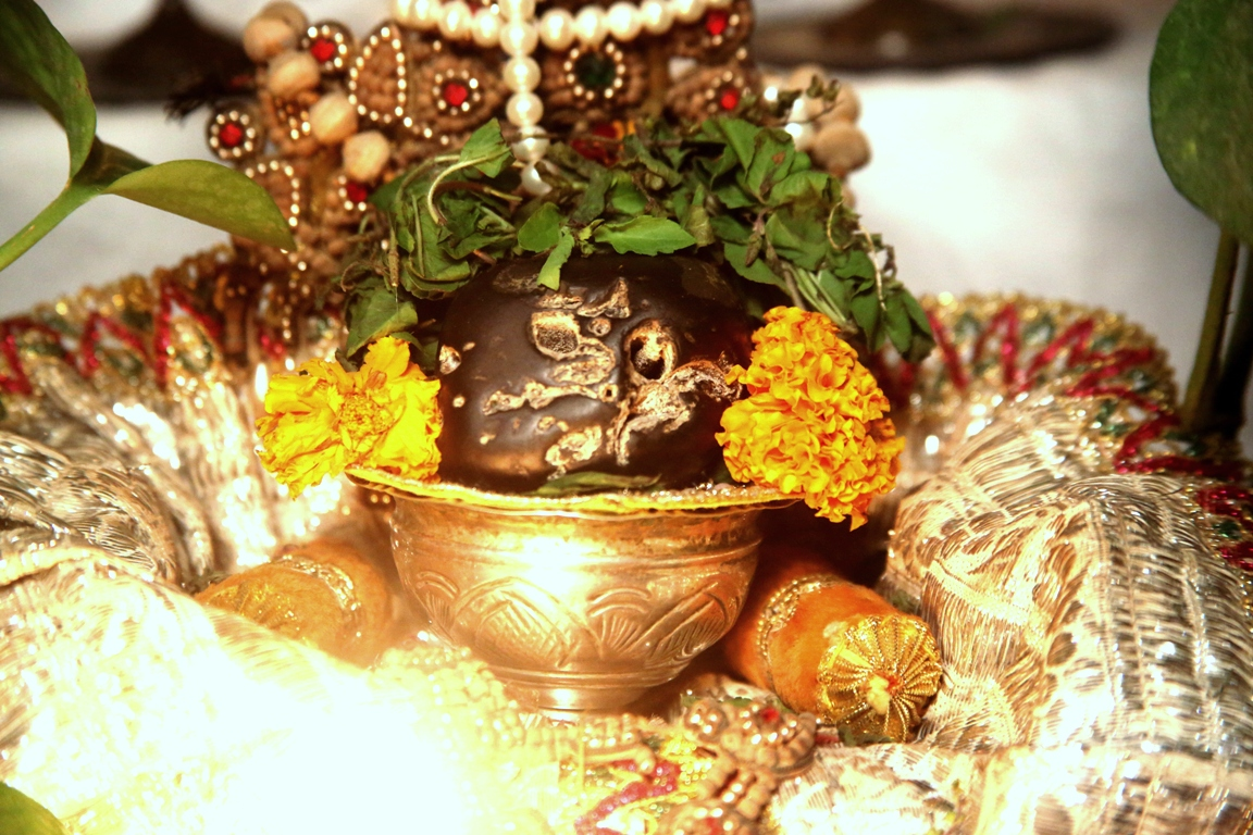 In chittaurgarh after the death of husband Bhoj Raj of Meerabai ji her brother-in-law Rana Bikramaditya wants to marry with Meerabai ji, After rejection of proposal the rana angred on Meerabai ji. Rana want to kill her. He give him poison which become turned a nectar. after that he send a black king kobra in box when she open the box it become a shaligram stone ( resemble of lord krishna).